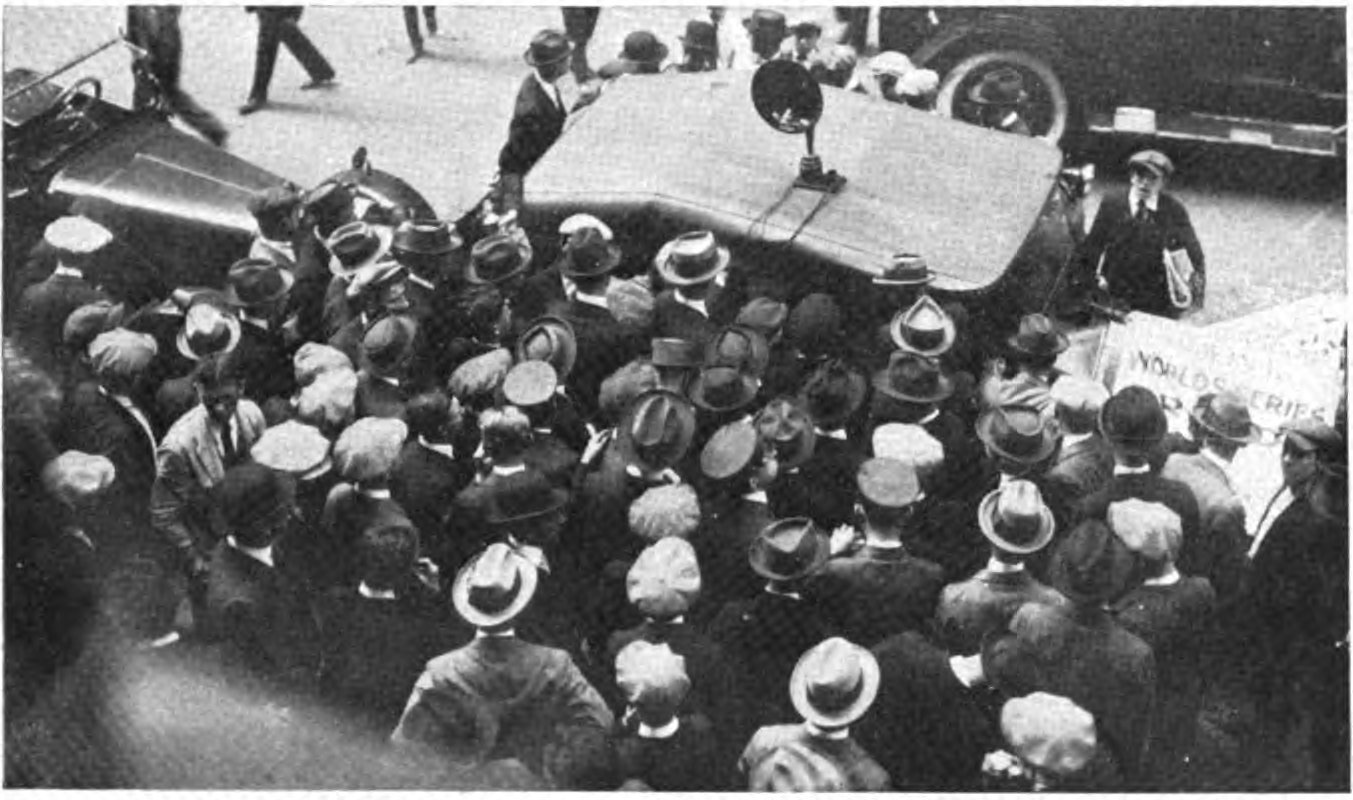 New Yorkers listening to the 1922 World Series of baseball by radio. In 1922 radio broadcasting was just getting started in a few major cities and was an exciting new "high tech" innovation. These financial workers on Wall Street are gathered around a car in which someone has installed a radio (cars didn't come with radios yet) and are listening to the play-by-play from the radio's horn loudspeaker which was placed on the roof.